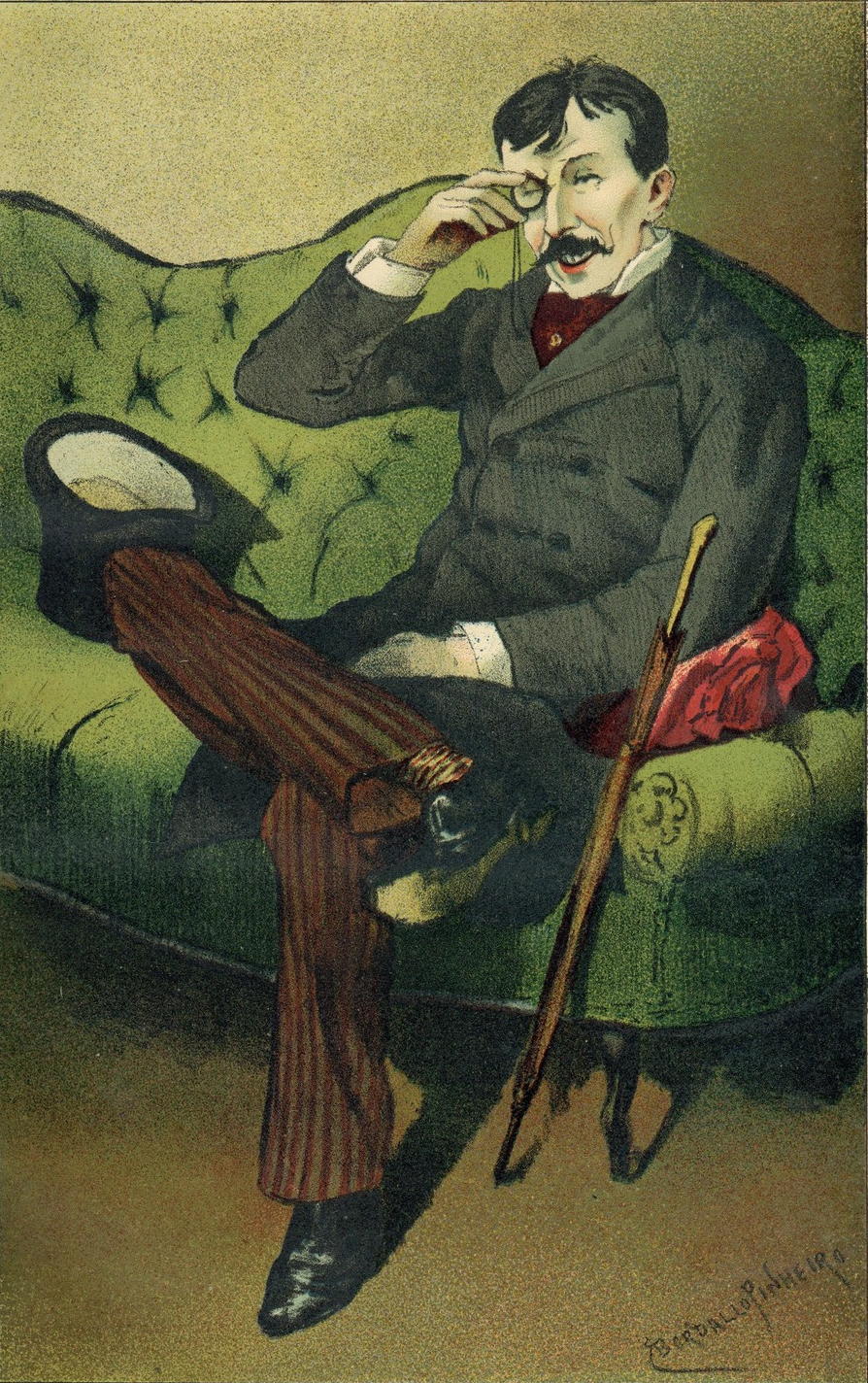 Caricature of Portuguese writer José Maria de Eça de Queiroz (1845-1900), by Rafael Bordalo Pinheiro (published in the Álbum das Glórias, 1880).